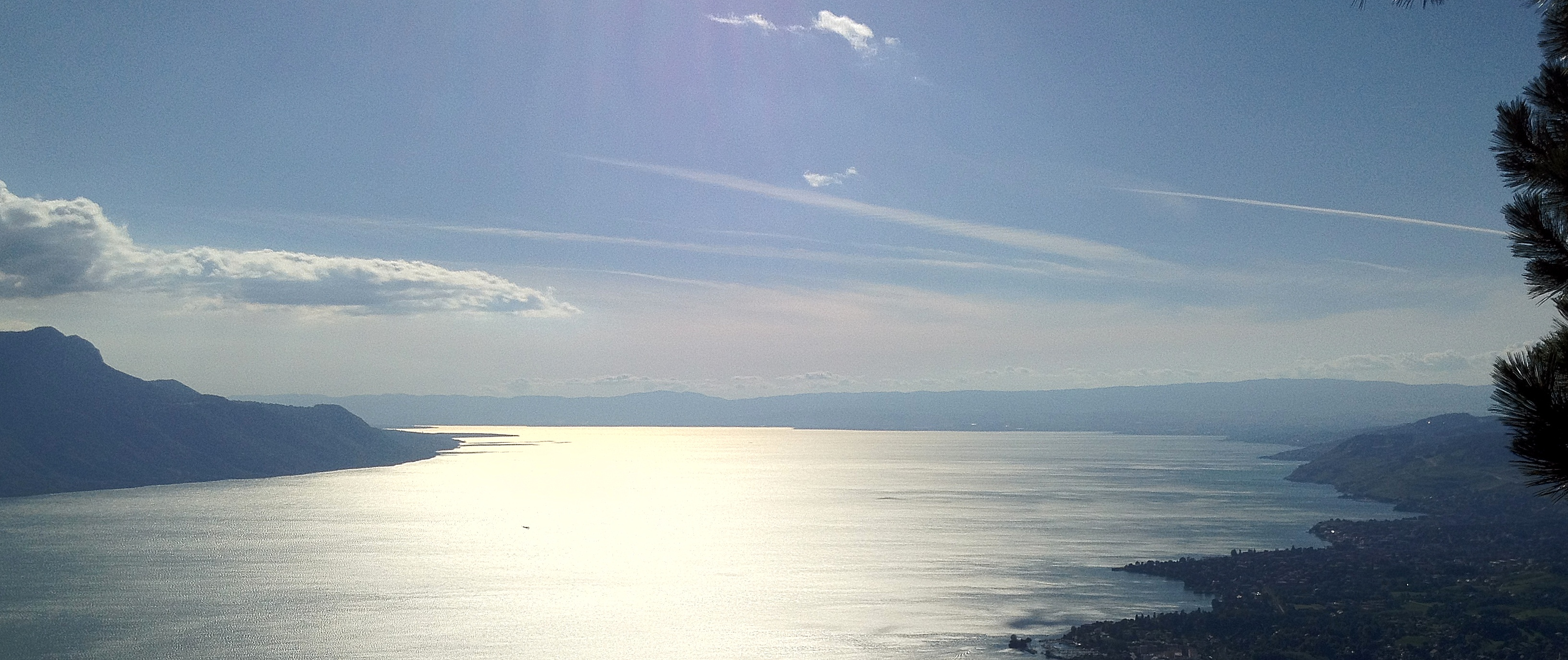 Lake Geneva seen between Glion and Caux (Canton of Vaud)